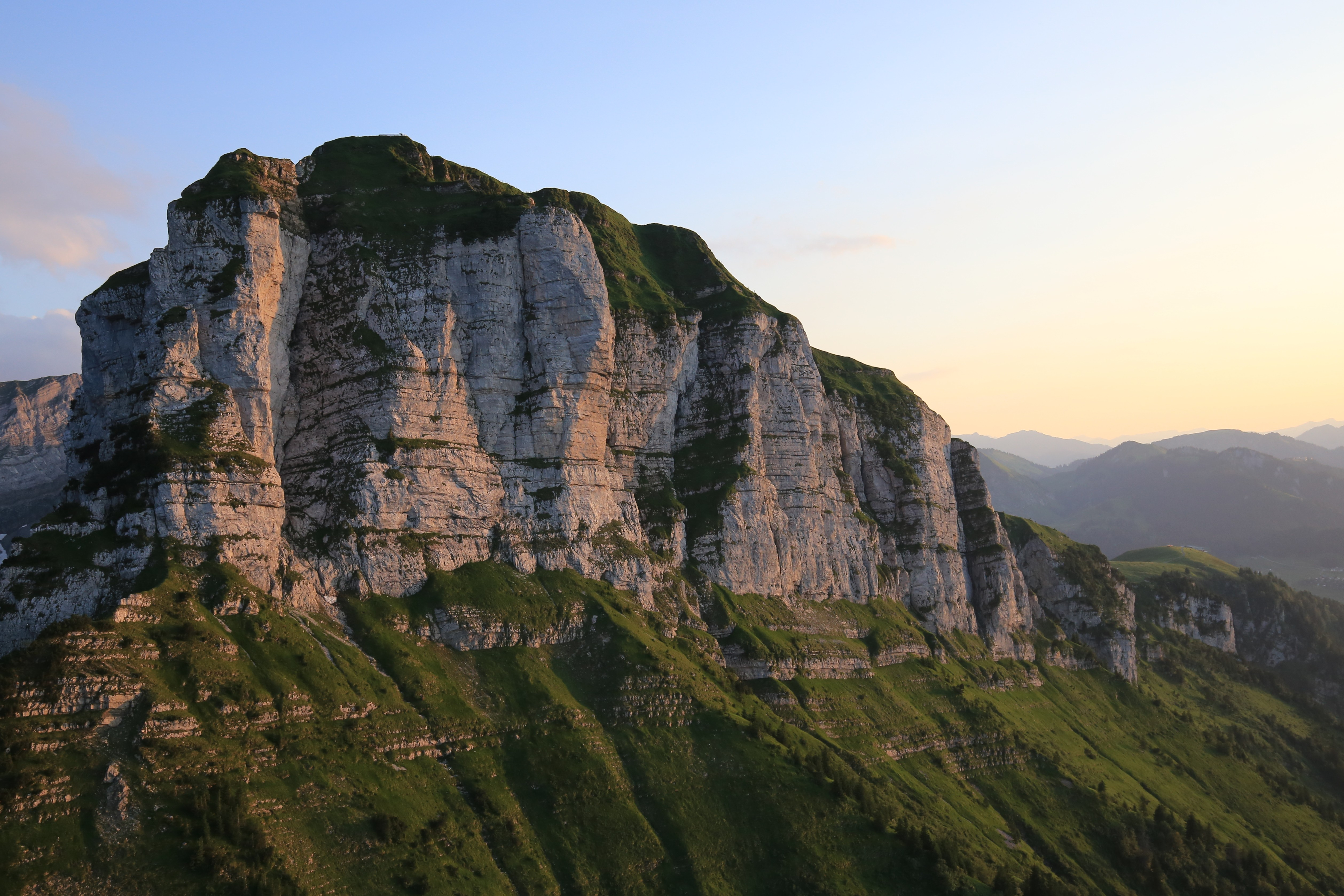 North face of Niederbauen-Chulm, Switzerland as seen from a paragliding flight towards Brunnen.